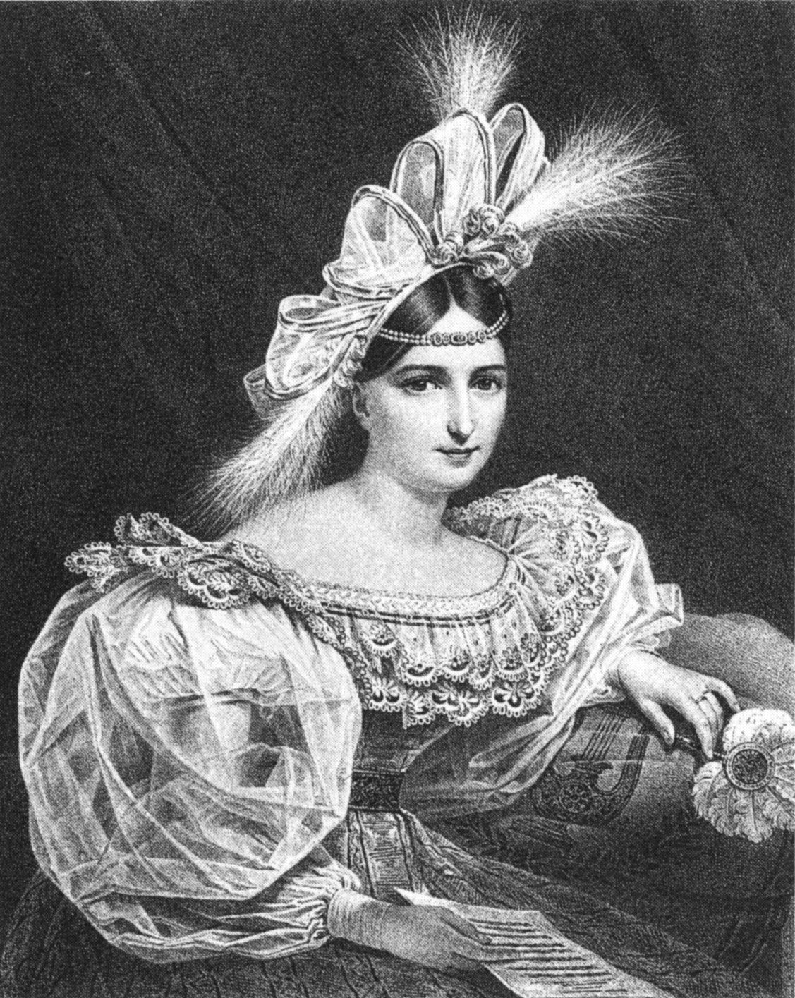 Laure Cinti-Damoreau (1801–1863), French operatic soprano, who created leading roles in many of the operas of Gioachino Rossini for Paris at the Théâtre-Italien.